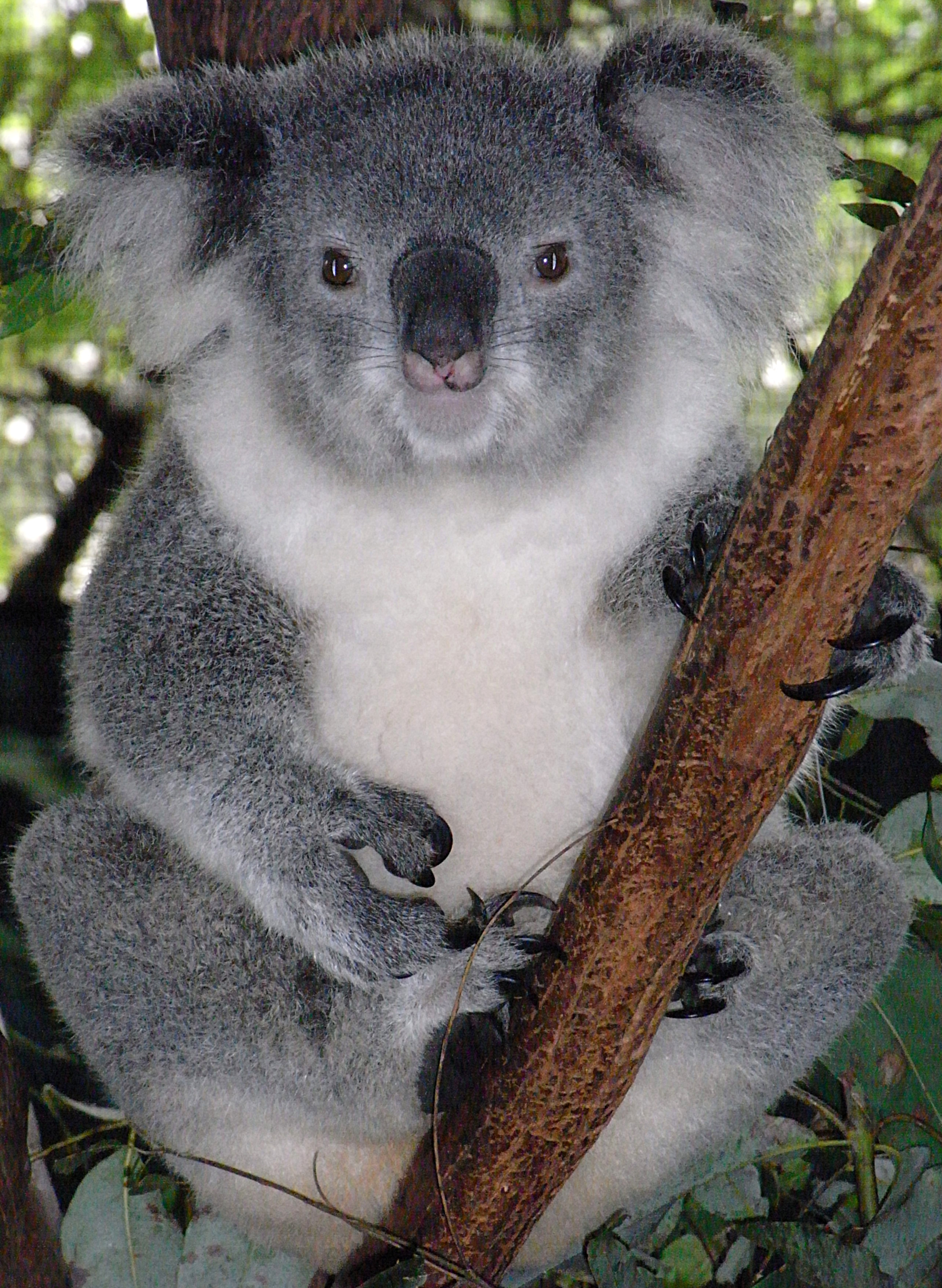 Female Koala (Phascolarctos cinereus) at Billabong Koala and Aussie Wildlife Park, Port Macquarie, New South Wales, Australia.